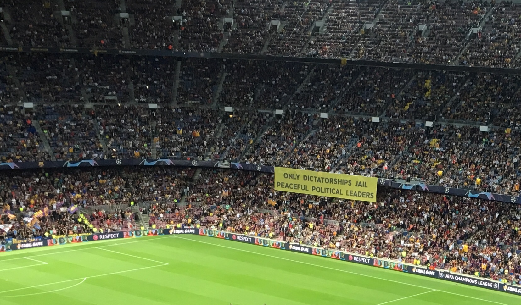 "Only dictatorships jail peaceful political leaders" -banner in the opening ceremony for FC Barcelona vs. Inter game in Camp Nou, Barcelona.